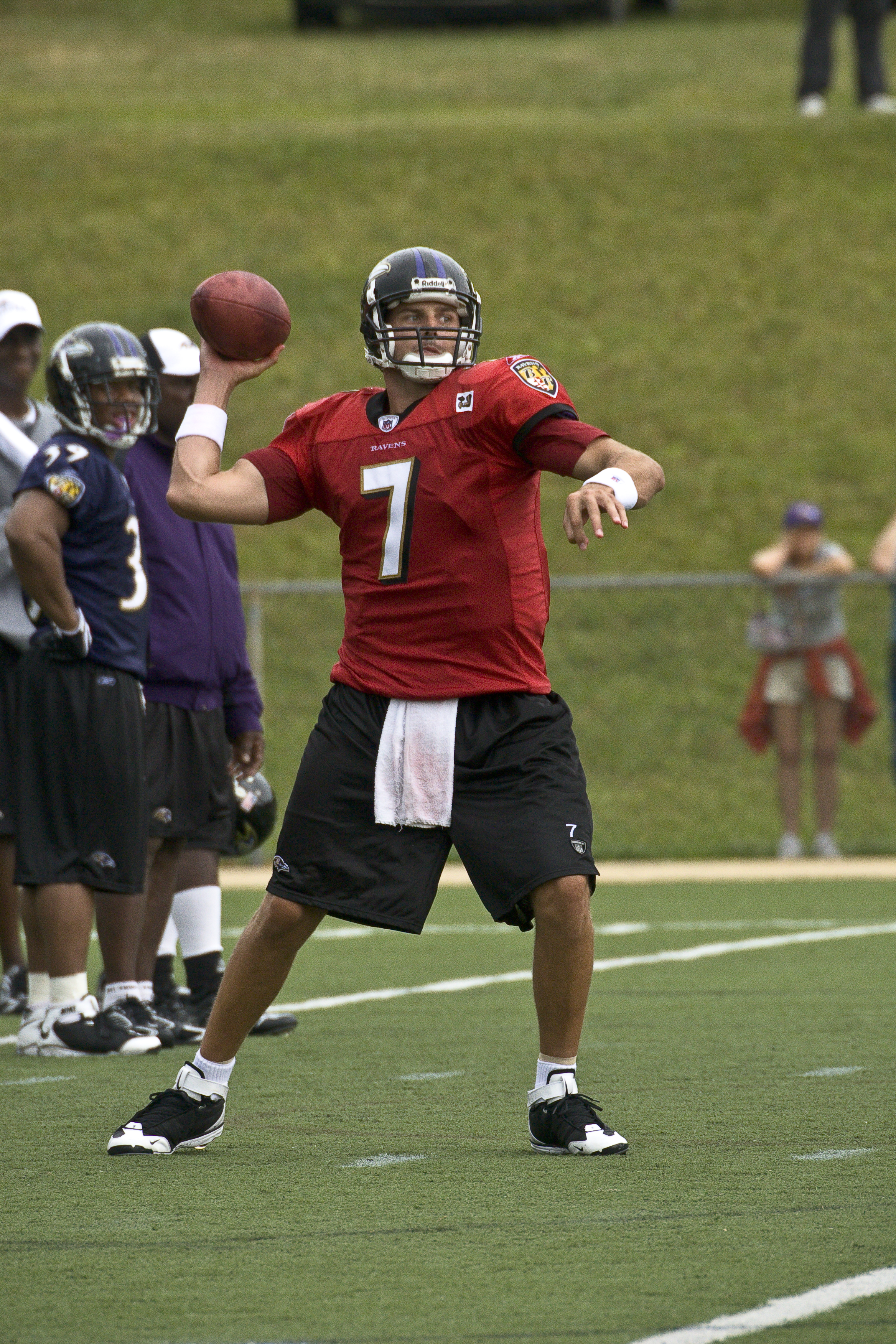 Ravens Training Camp July 23rd